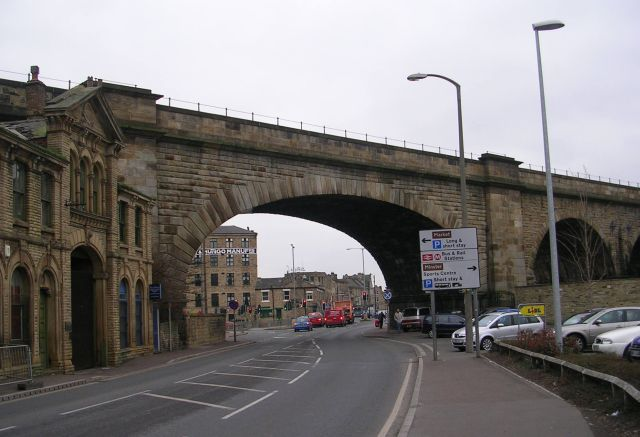 Railway Bridge MDL1 19 - A638 - Halifax Road